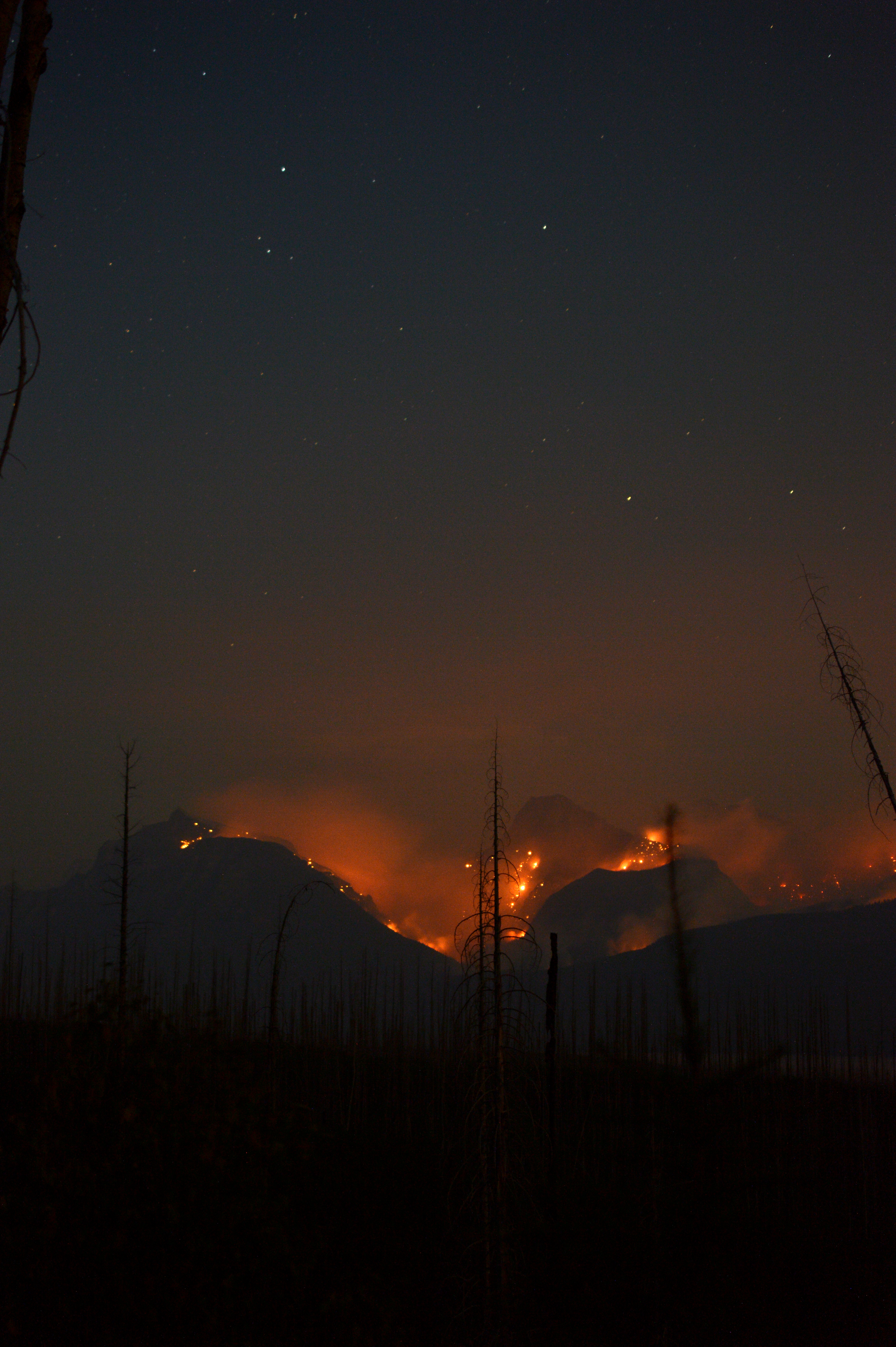 Sprague Fire at 1037pm on August 31, 2017 in Glacier National Park, Montana